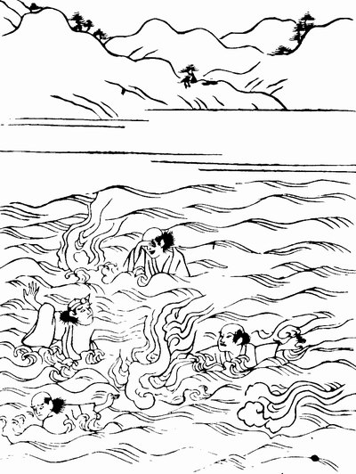 Funayūrei (ghosts of people dead at sea) from the Kokon Hyaku-monogatari Hyōban